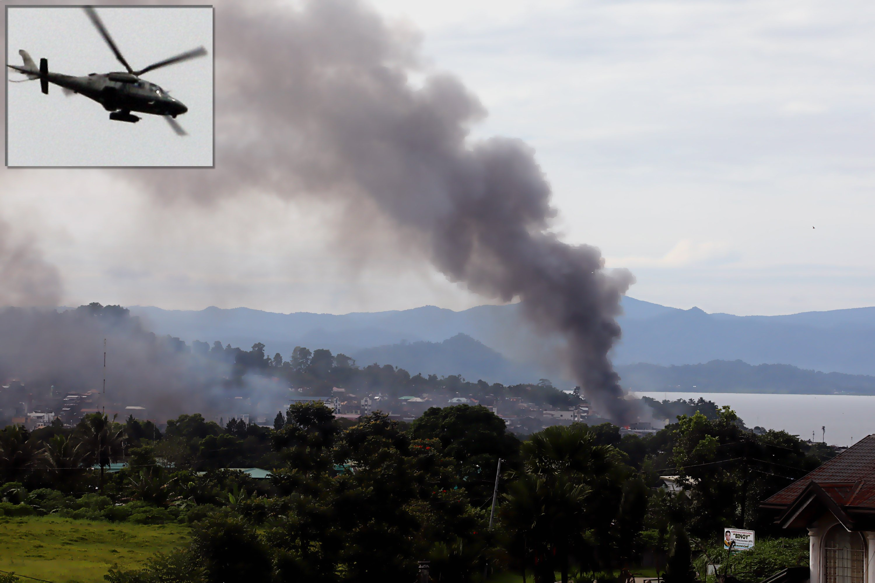 A Philippine Air Force (PAF) chopper (inset) carries out airstrikes against the Maute group at Barangay Banggulo near Lanao Lake in Marawi City on Tuesday (July 4, 2017). (PNA photos by Oliver Marquez)